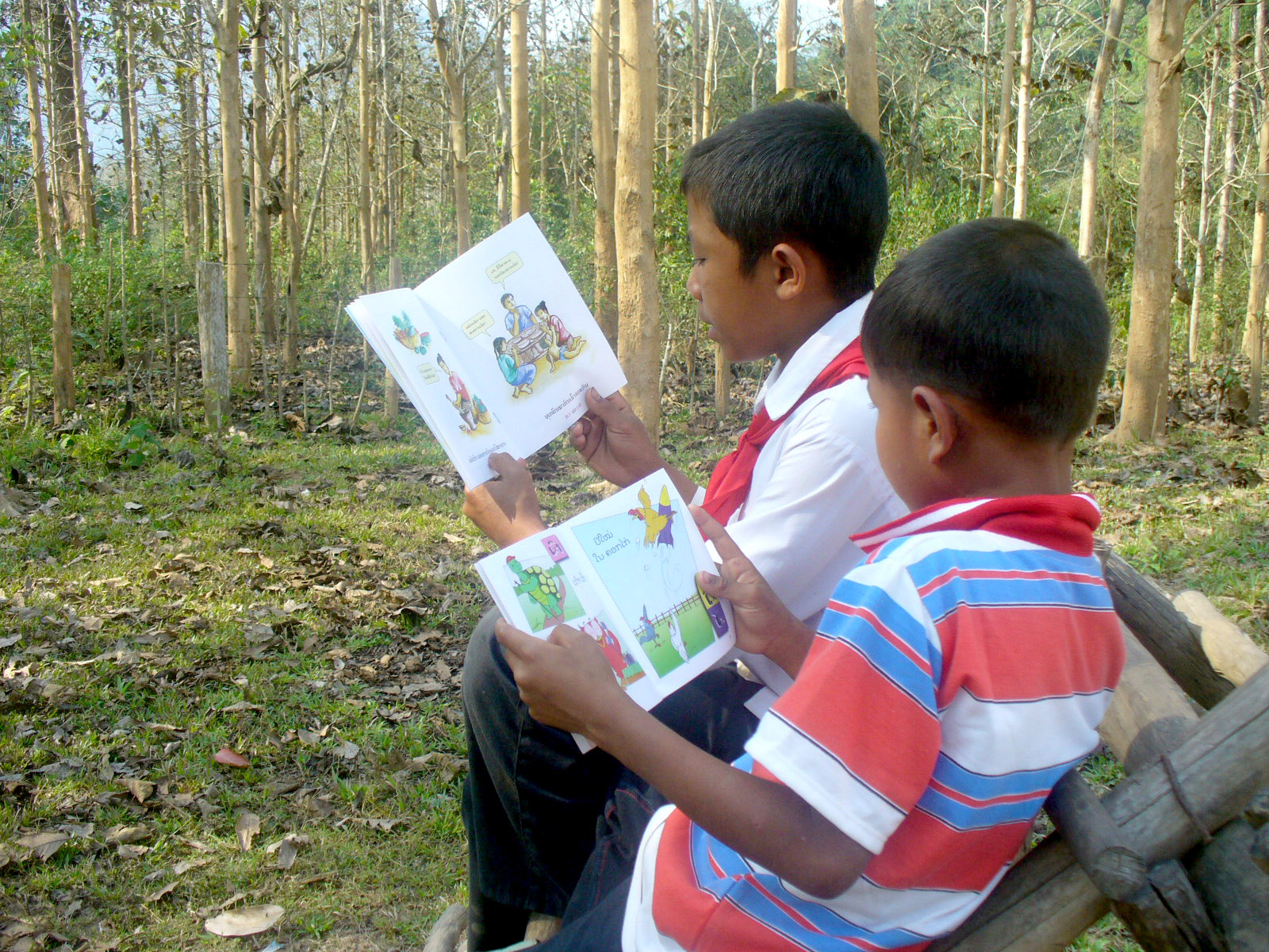 It is uncommon to see children reading in Laos, a country where books have traditionally been rare. Even more surprising, at first, is the subject of the book that has captured the attention of these two boys: It's about intestinal parasites. Stomach and intestinal worms are endemic in rural Laos, however. Both boys have presumably suffered from them, multiple times, and are eager to learn what causes them. They received their books from Big Brother Mouse, which sets up daily reading programs in Lao schools.